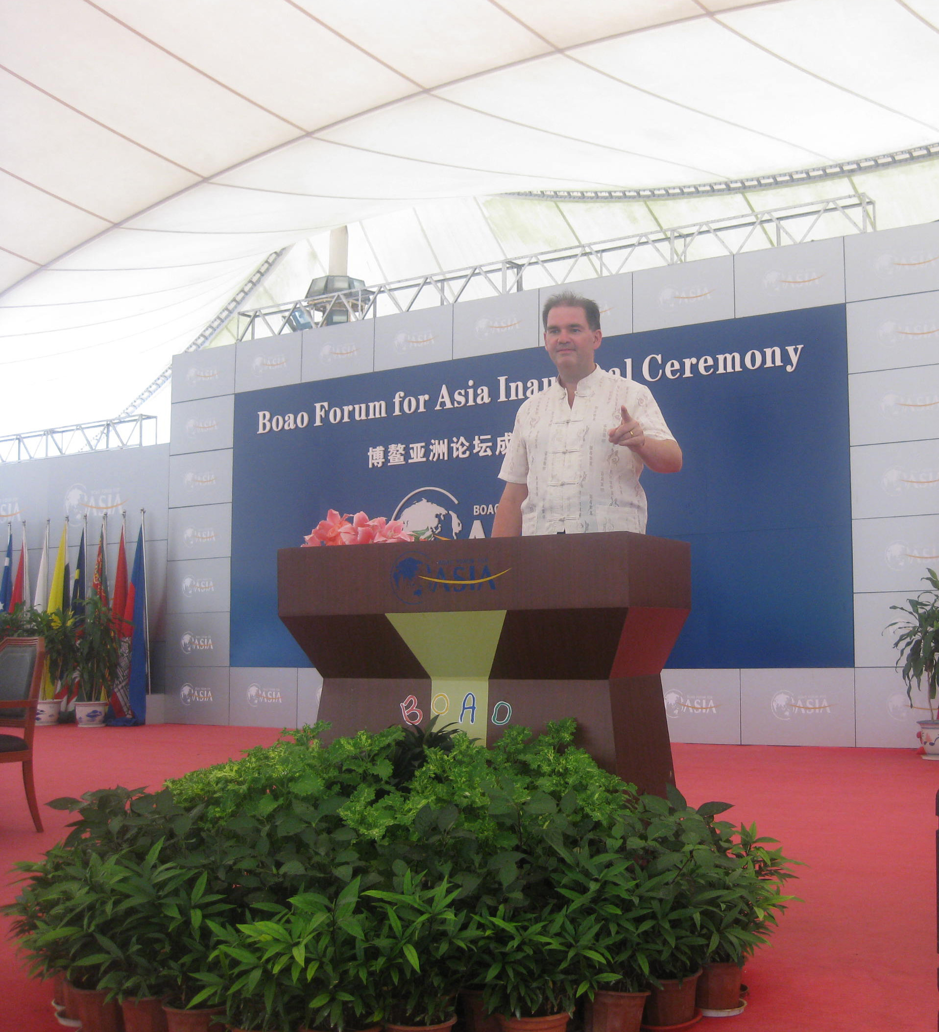 speech francois lafargue boao forum 2012